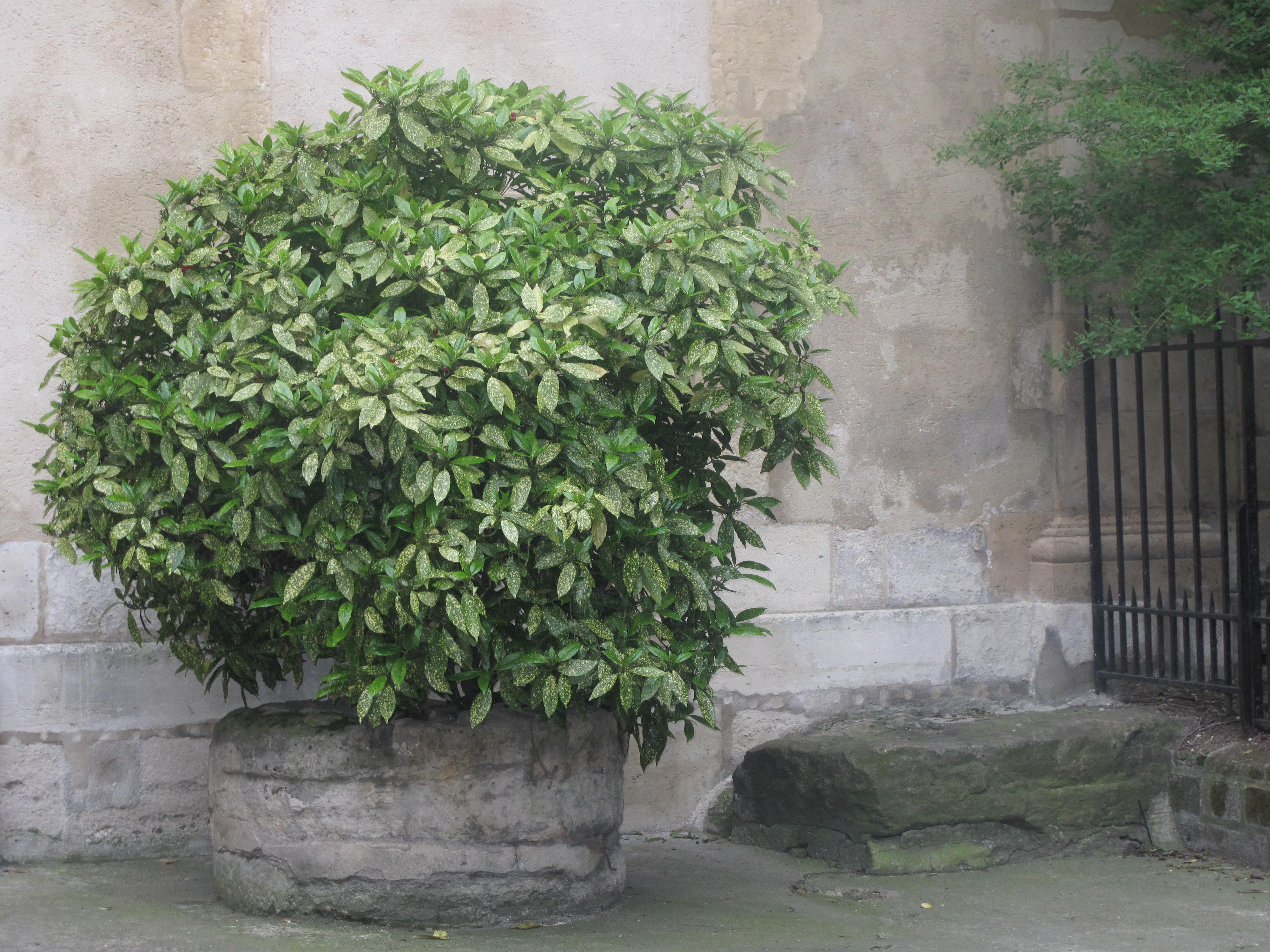 Flagstone of the ancient roman road (north-south), at the bottom and on the right of the facade of the church Saint-Julien-le-Pauvre, Paris 5th arr.